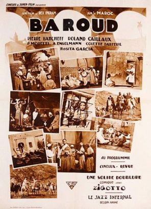 Film directed by Rex Ingram (1931) : French Poster